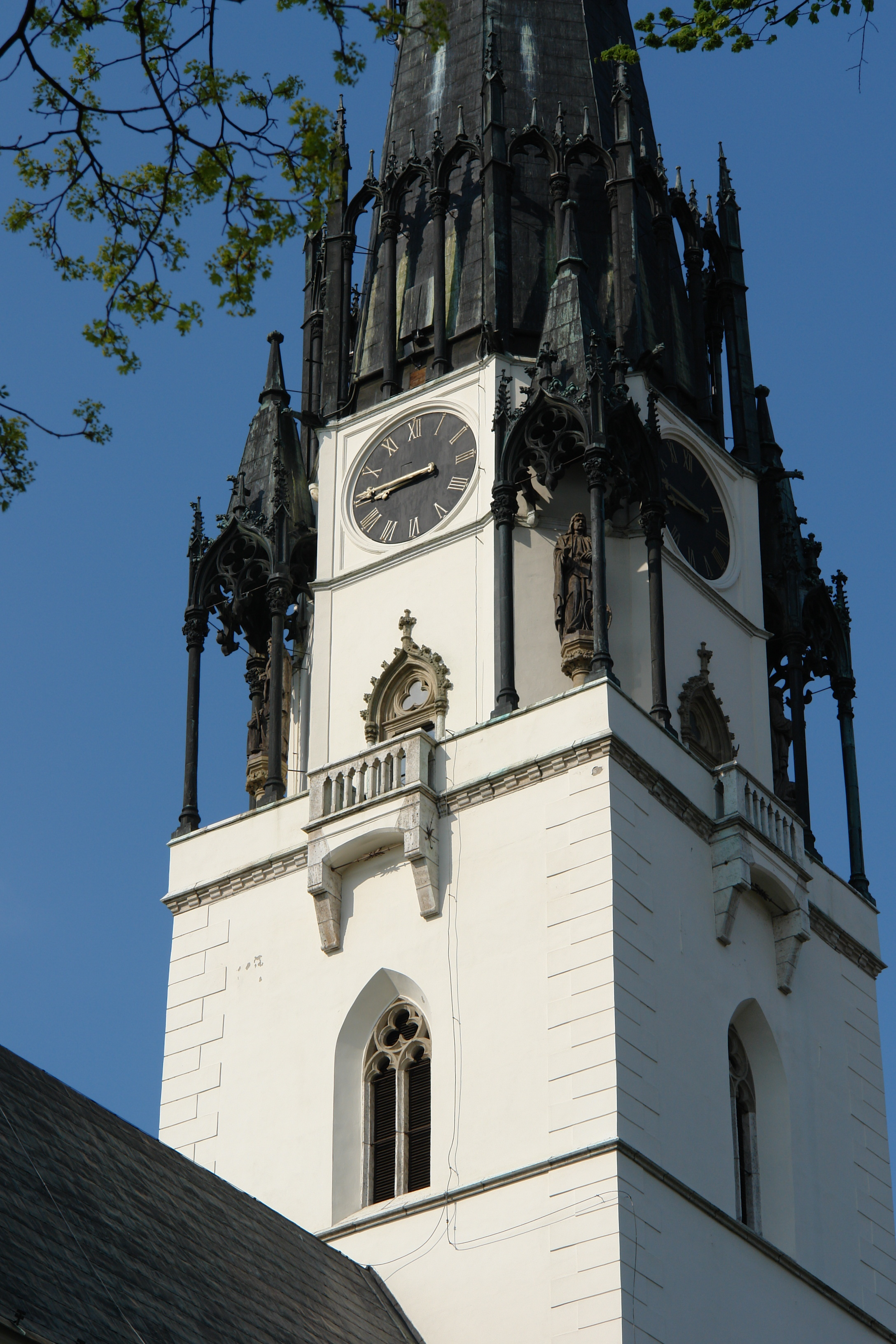 Church of the Assumption of Mary, Spišská Nová Ves, Slovakia